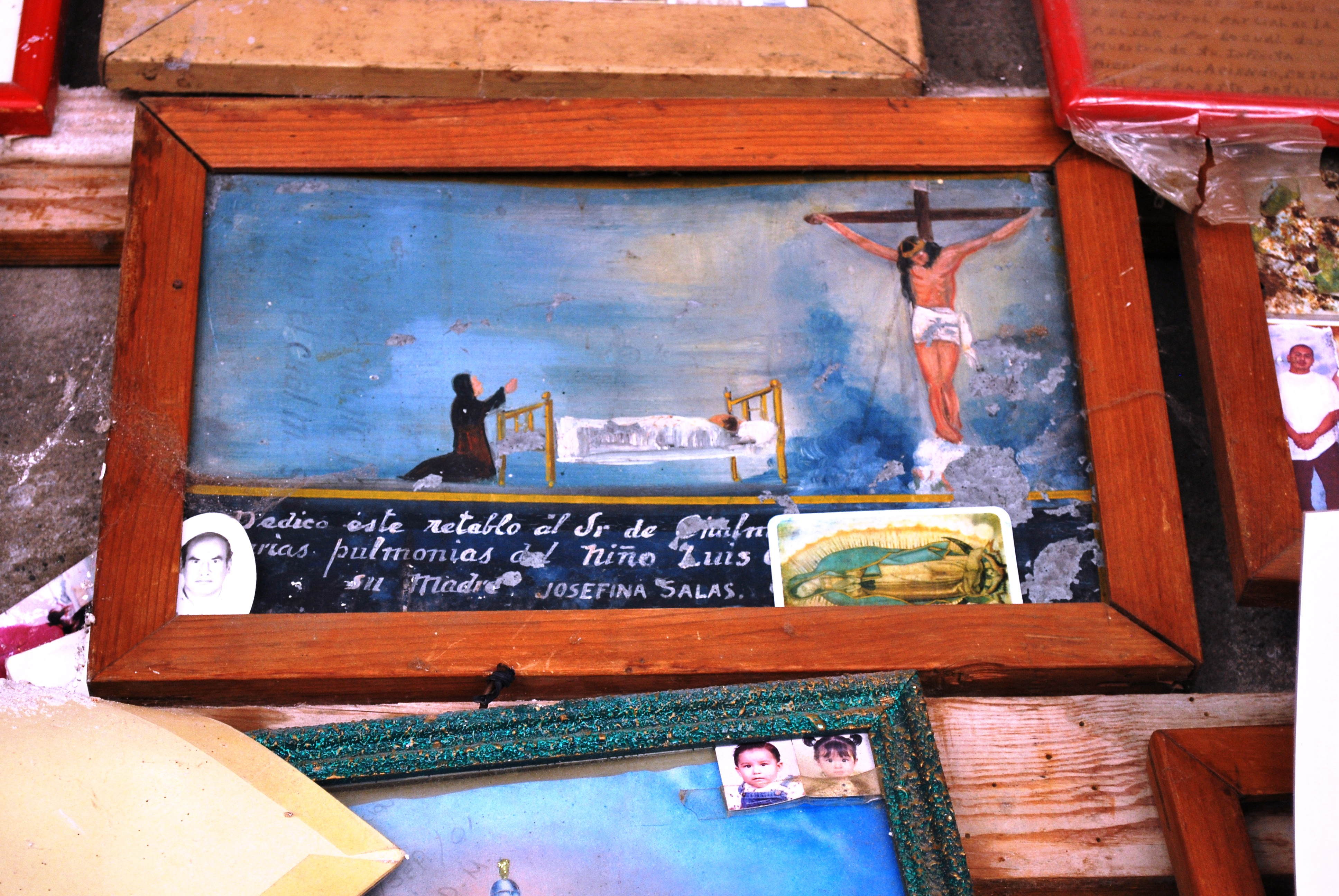 Folk retablo by Josefina Salas offering thanks to the Señor de Chalma for the recovering of her son. On display at the folk retablo room at the Sanctuary of Chalma in Chalma, Malinalco, Mexico State